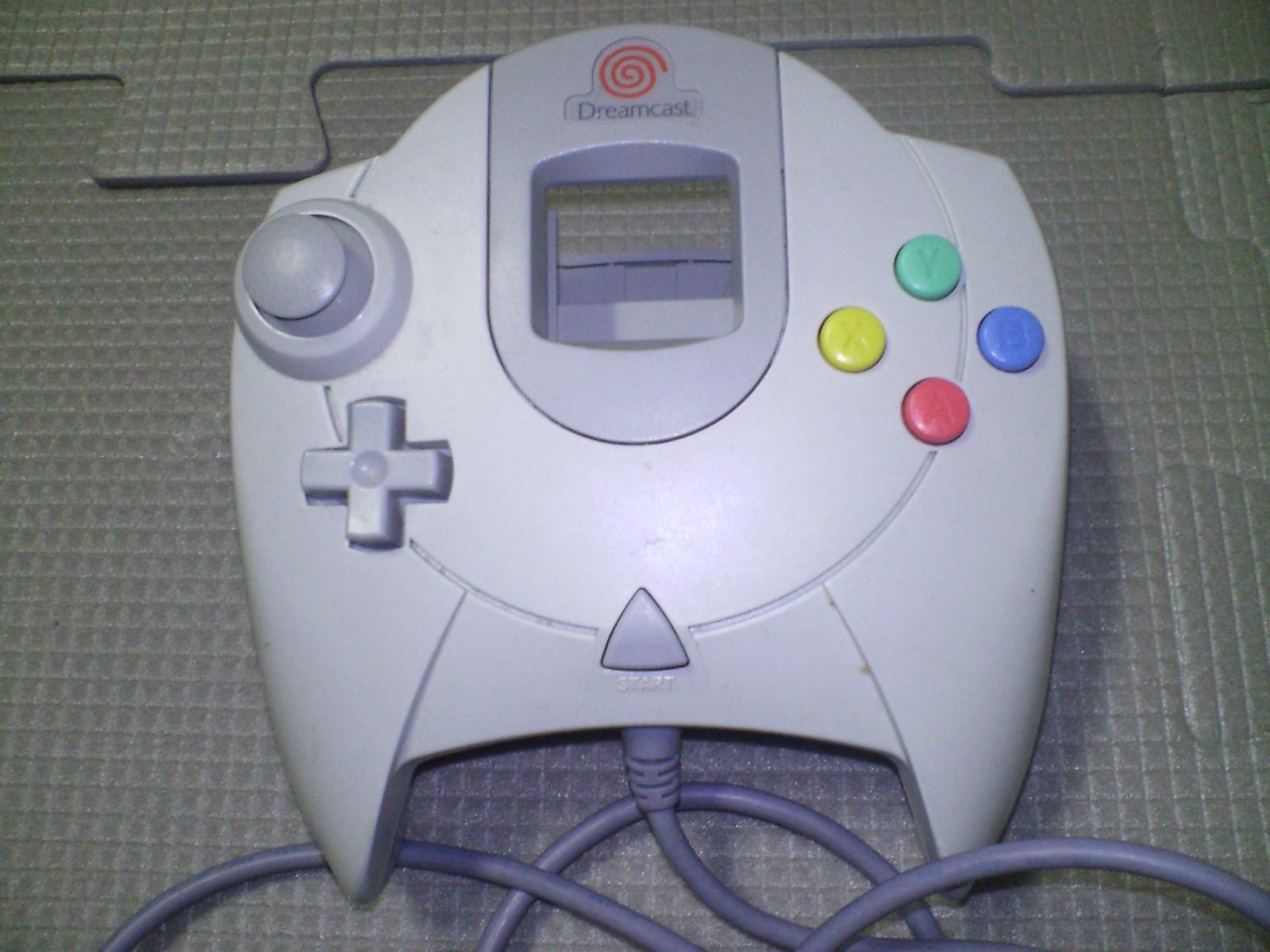 Dreamcast Controller